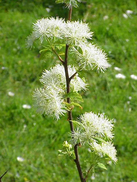 Name Neviusia alabamensis Family Image no. 3 Permission granted to use under GFDL by Kurt Stueber